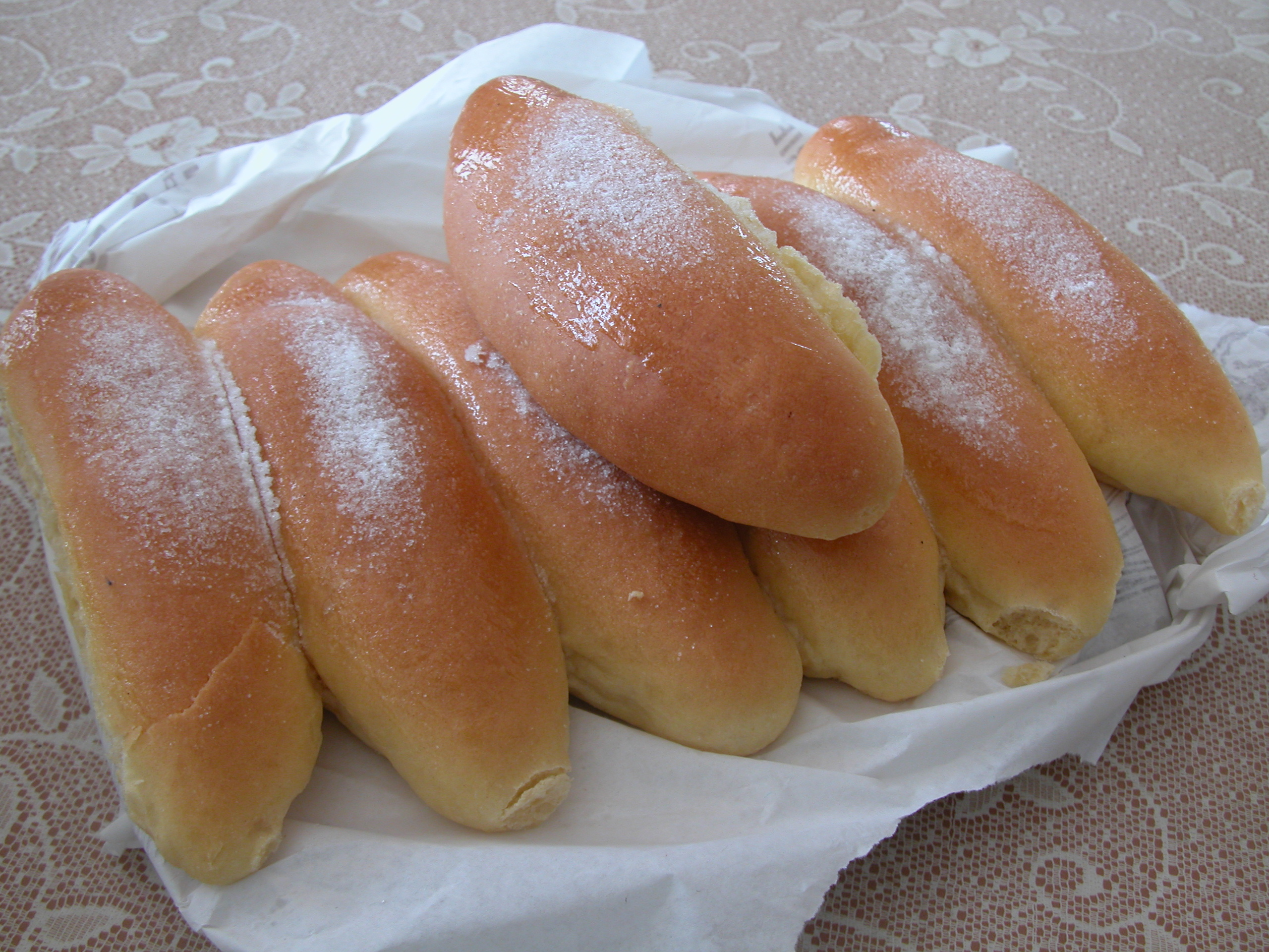 Coque de Béziers, a type of brioche